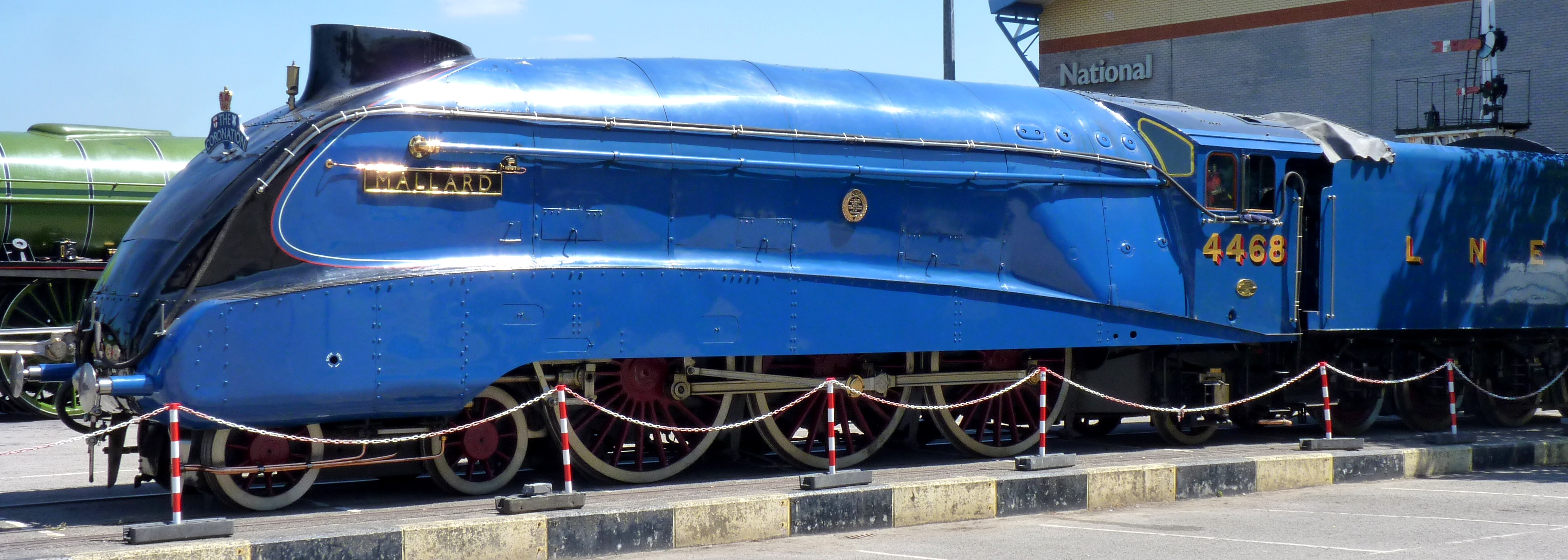 The LNER A4 Mallard in the National Railway Museum.